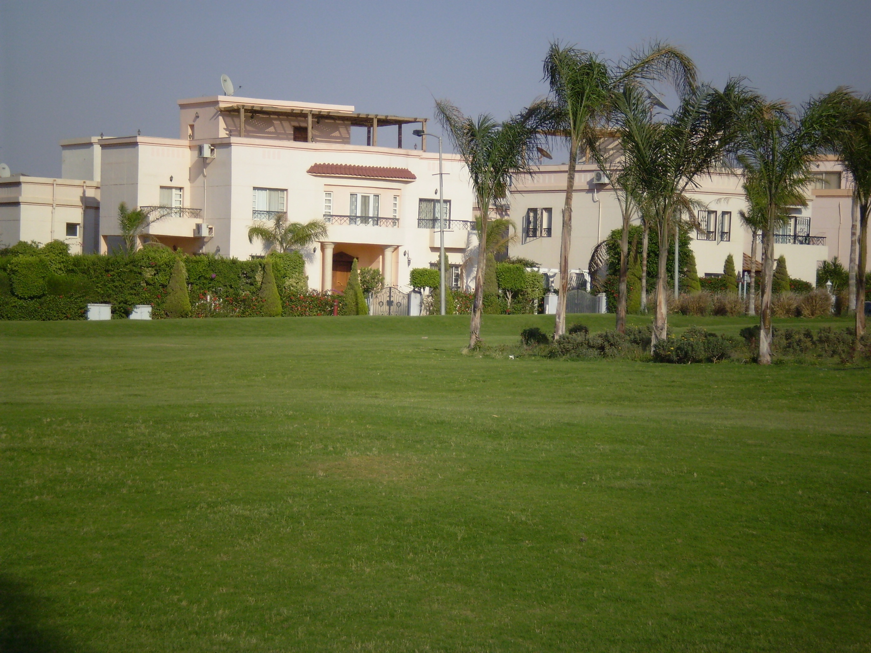 Some villas in Al-Rehab city